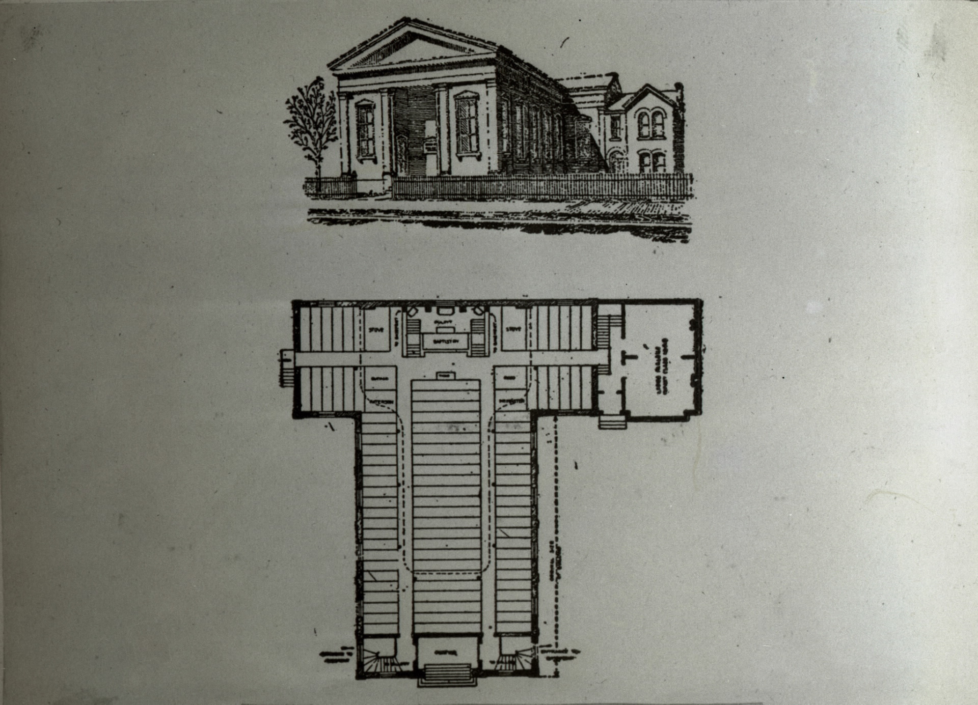 copyright 1903? Public Domain image is displayed by Toronto Public Library